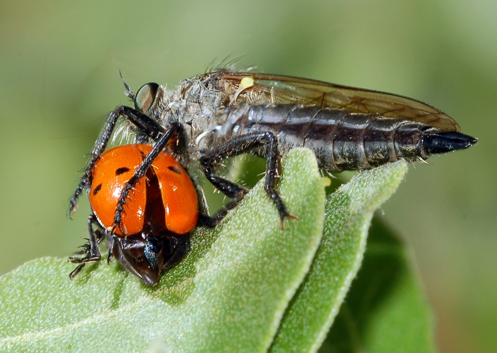 Lachnaia species as prey of a robber fly (cf. Dysmachus fuscipennis), Frouzet, Languedoc-Roussillon, France Other version (see below) claims the beetle is Clytra sp. Dysmorodrepanis 15:01, 8 January 2008 (UTC)